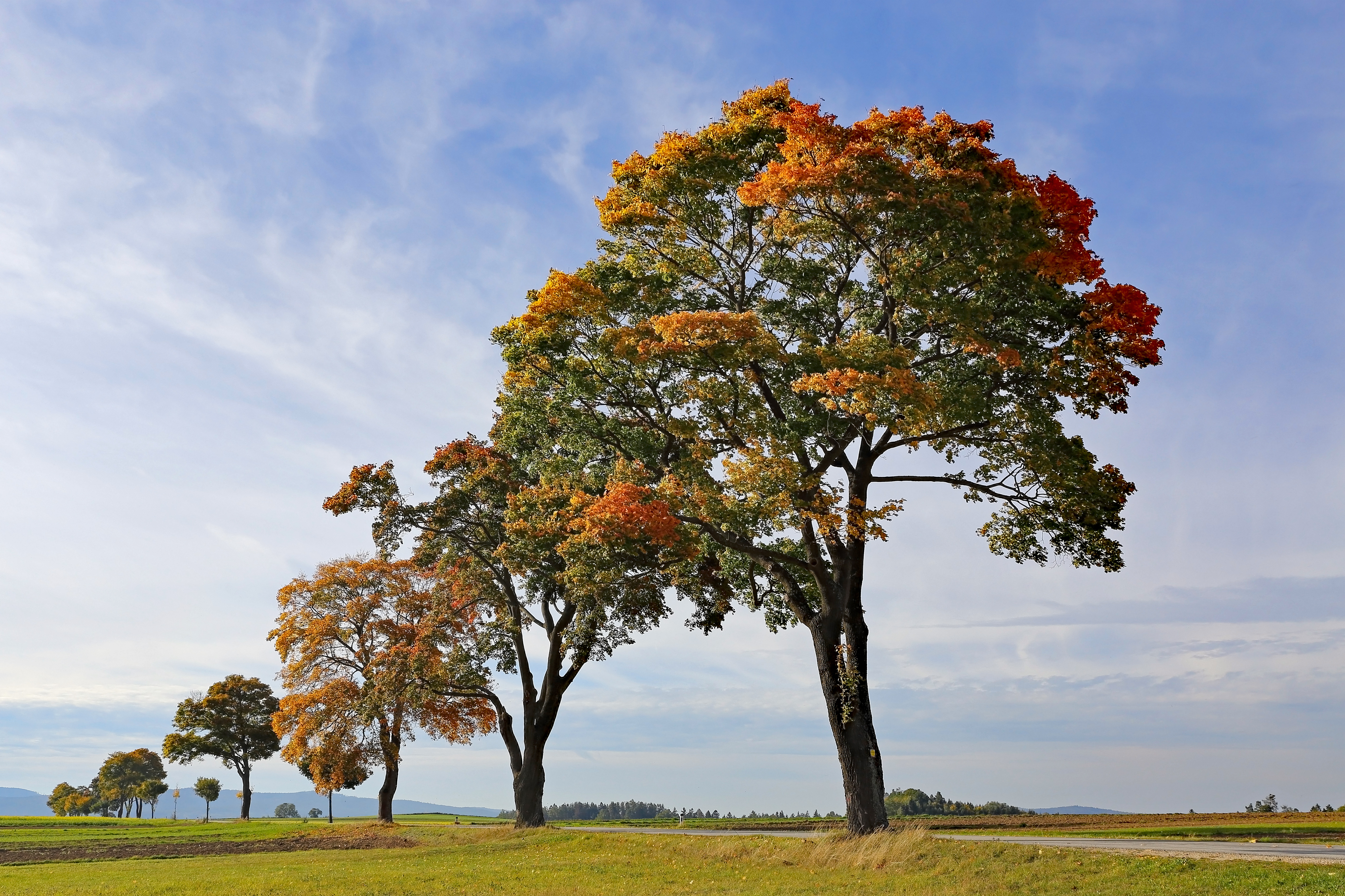 Tree row on a street between Altweitra and Hörmanns, Lower Austria This media shows the natural monument in Lower Austria with the ID GD-082.